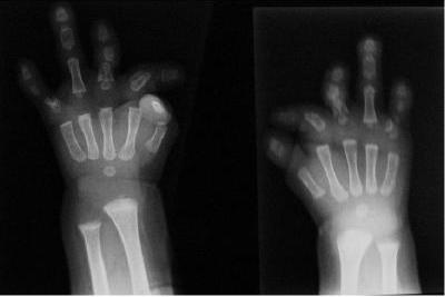 An Egyptian patient with du Pan syndrome. X-ray of both hands and feet showing severe brachydactyly and radial deviation of fingers .